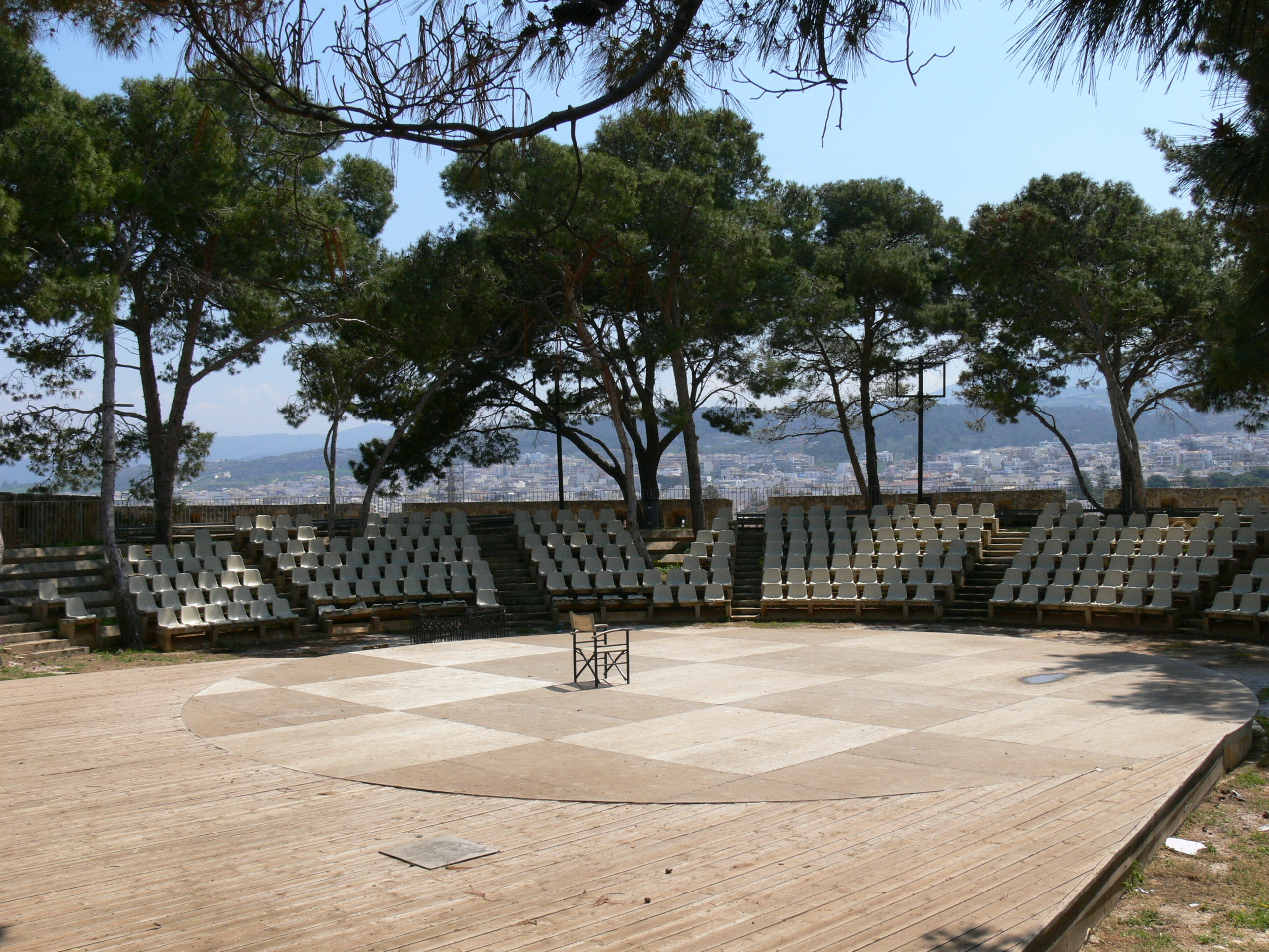 Rethymno fortress ( Crete ). Open air theatre.